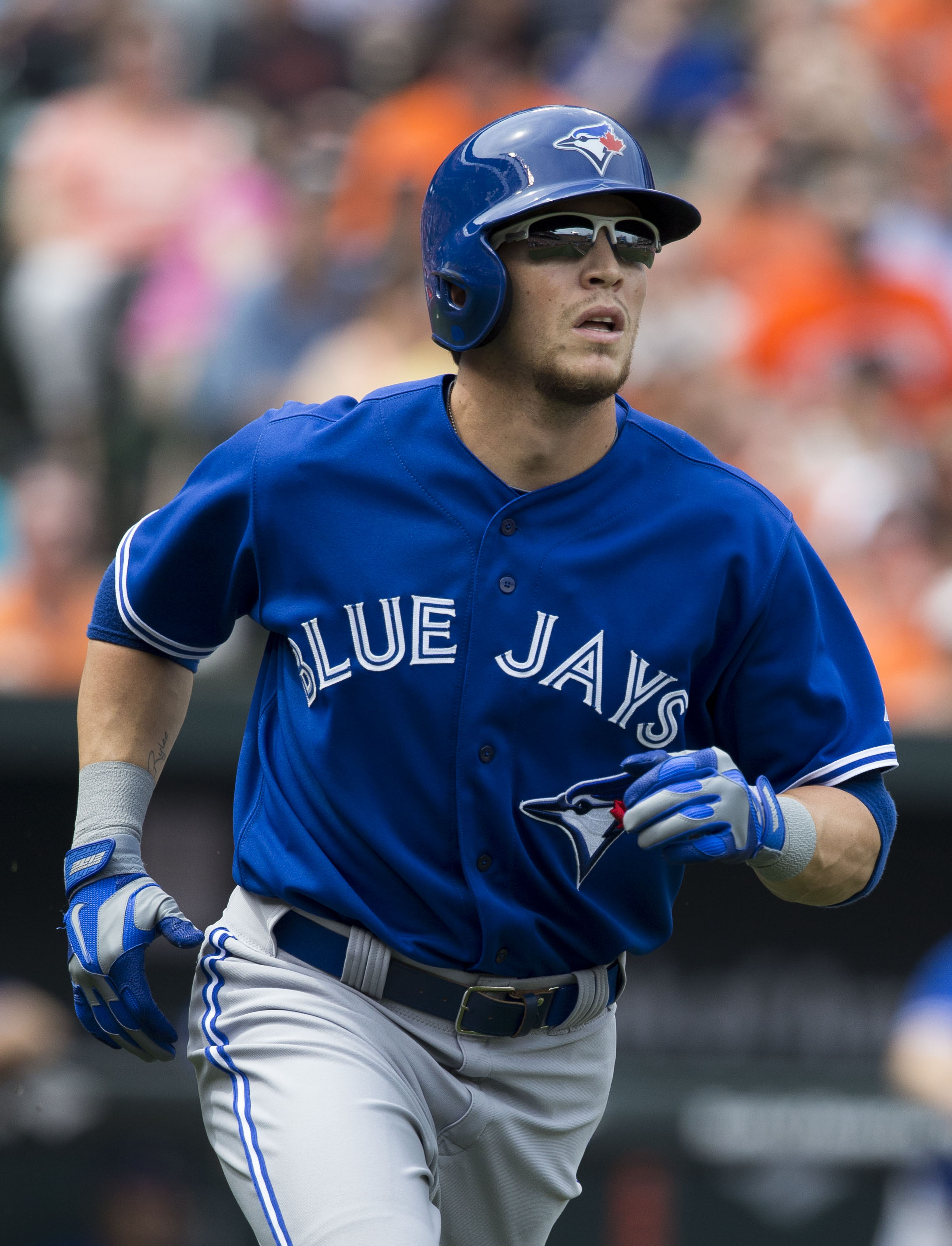 Blue Jays at Orioles 4/13/14